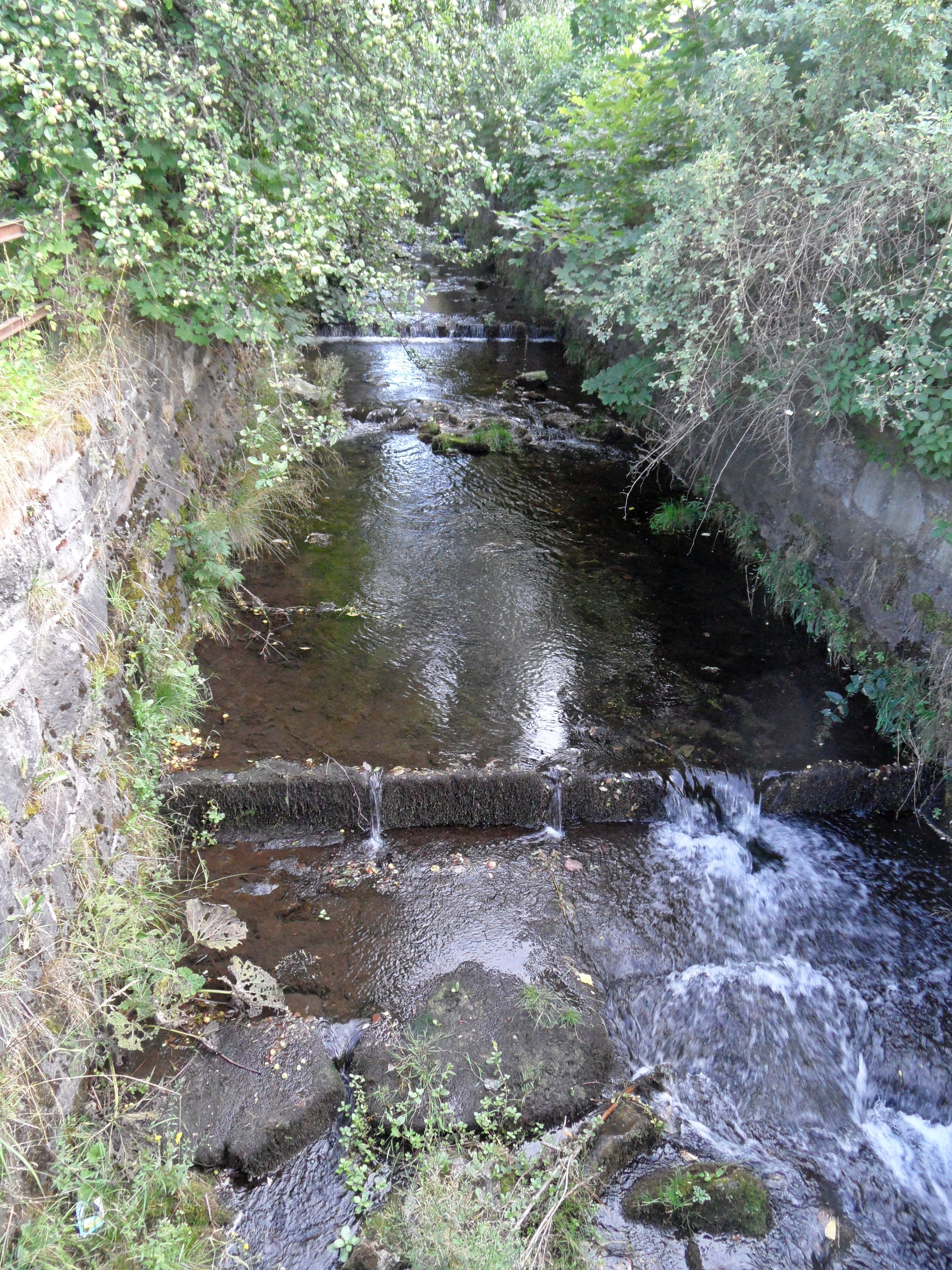 Dětřichov (Jeseník) J. Vrchovištní creek, near Famous tree Fraxinus excelsior. Jeseník District, the Czech Republic.